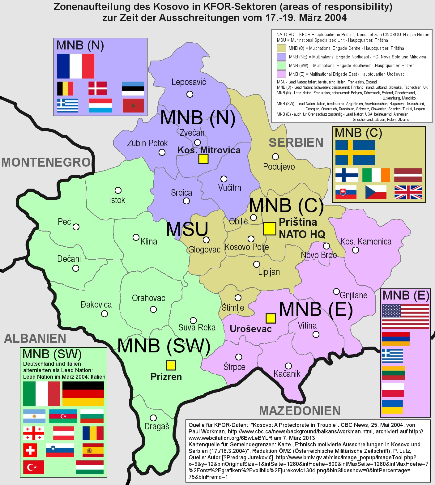 KFOR sectors, areas of responsibilities, contributing nations in March 2004, when riots happend in Kosovo on March 17th to March 19th, 2004.